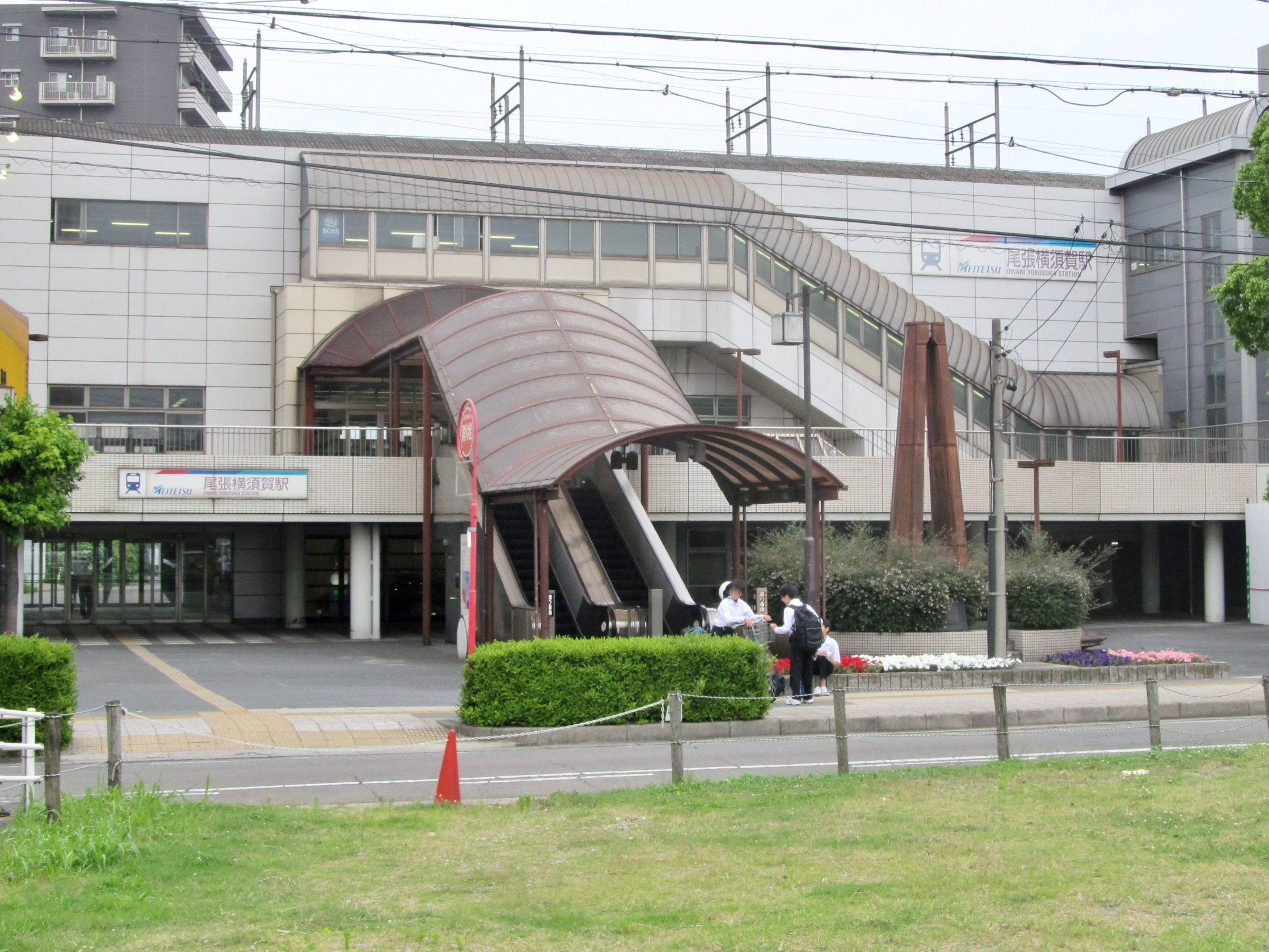 Nagoya Railroad Tokoname Line Owari Yokosuka Station West Gate